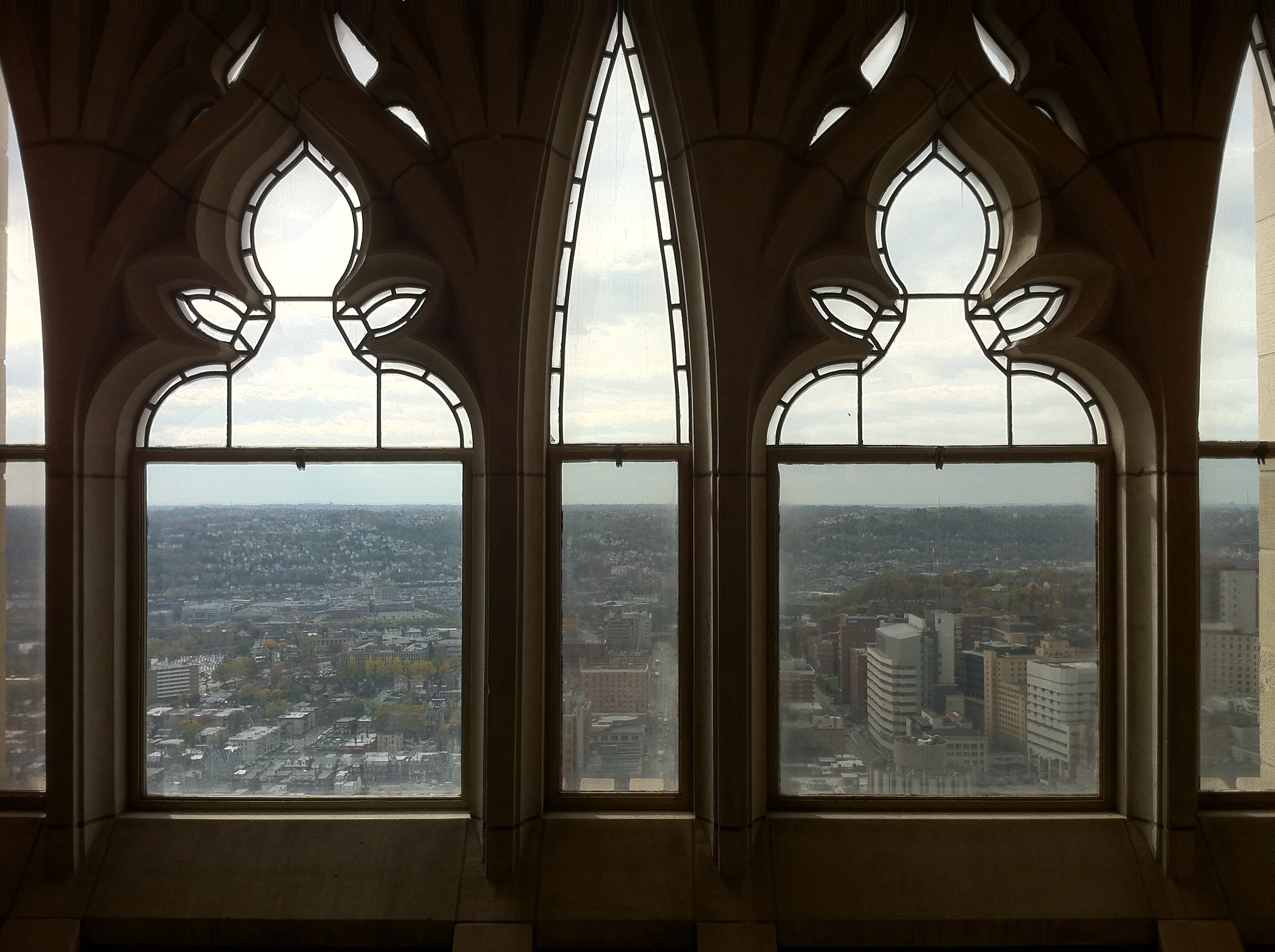 View from the top of the Cathedral of Learning